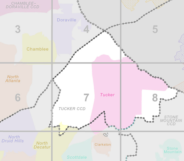 US Census 2000 Block Map: DeKalb County. Image cropped and edited to highlight the Tucker, Georgia Census County Division(CCD), 93096, and the Tucker Census Designated Place, 77652.